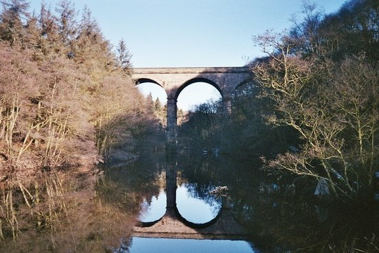 Nidd Gorge Viaduct on the former Harrogate to Ripon railway, North Yorkshire